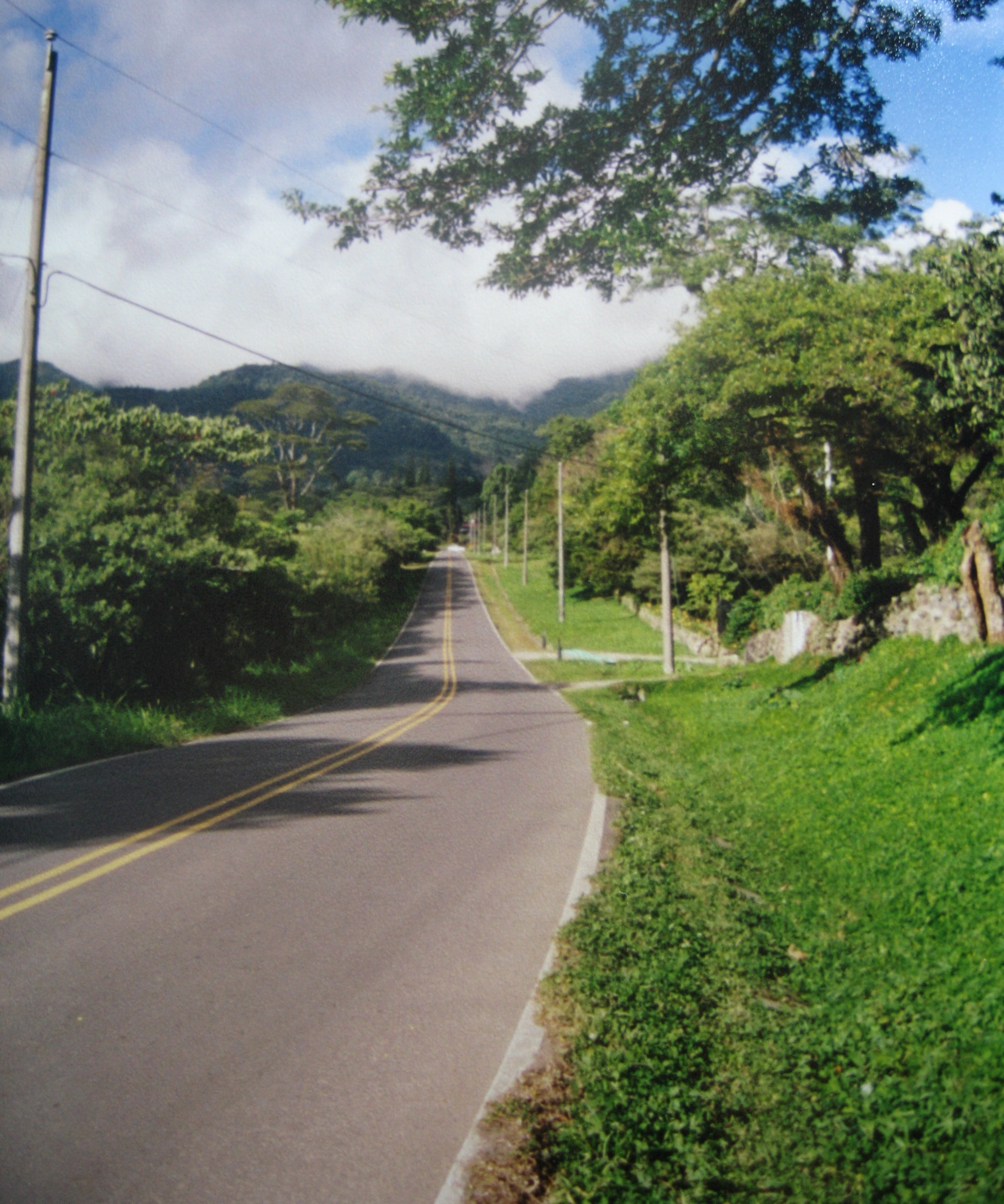 Boquete, Panamá, 12/2005 own work, public domain